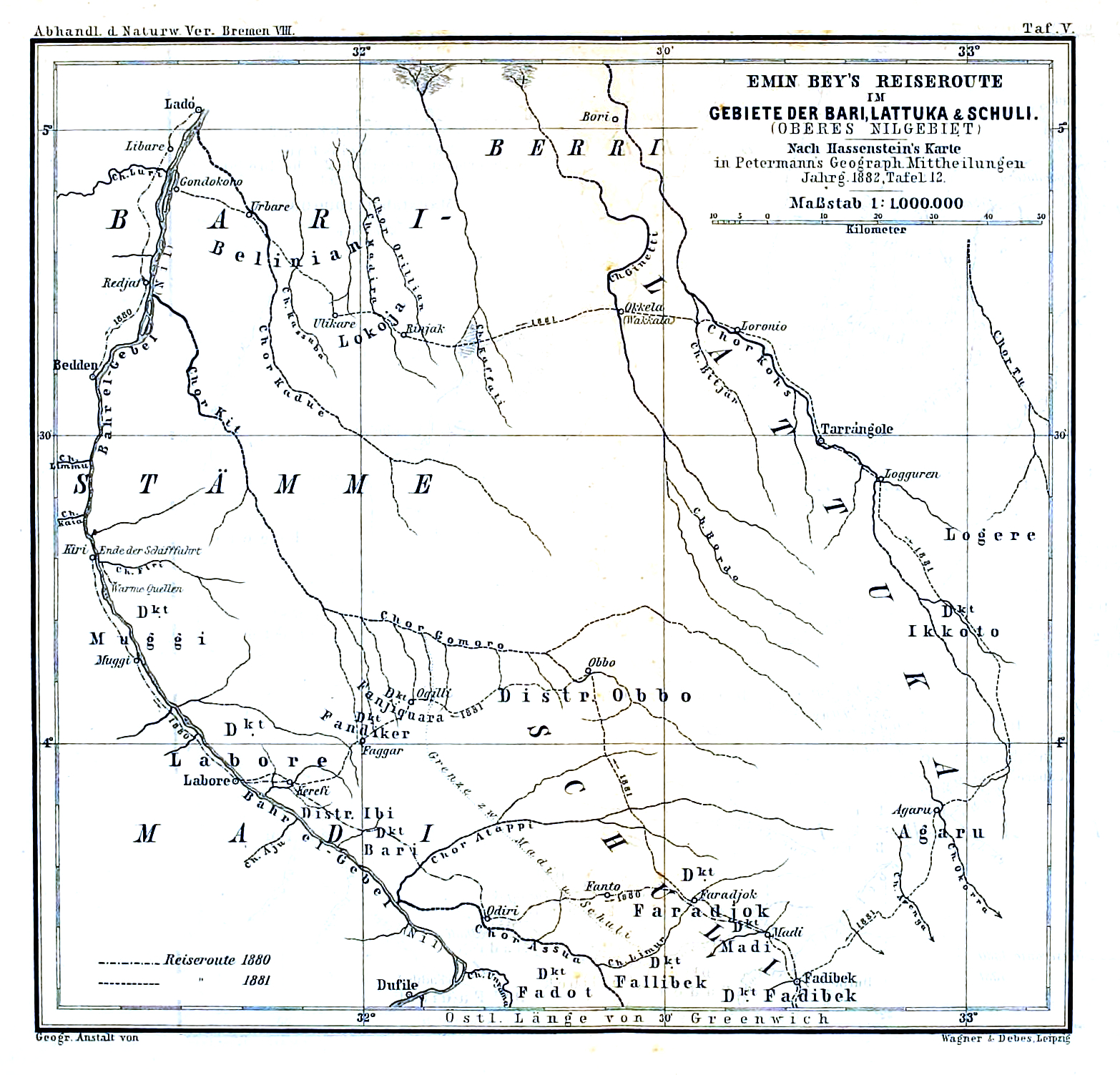 Travel route of Emin Bey (or Emin Pasha)